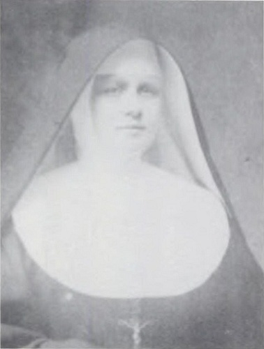 Sister M. Leopoldina Burns in 1886. She was the main soredresser for women patients at Bishop House during its first years in Kalaupapa.